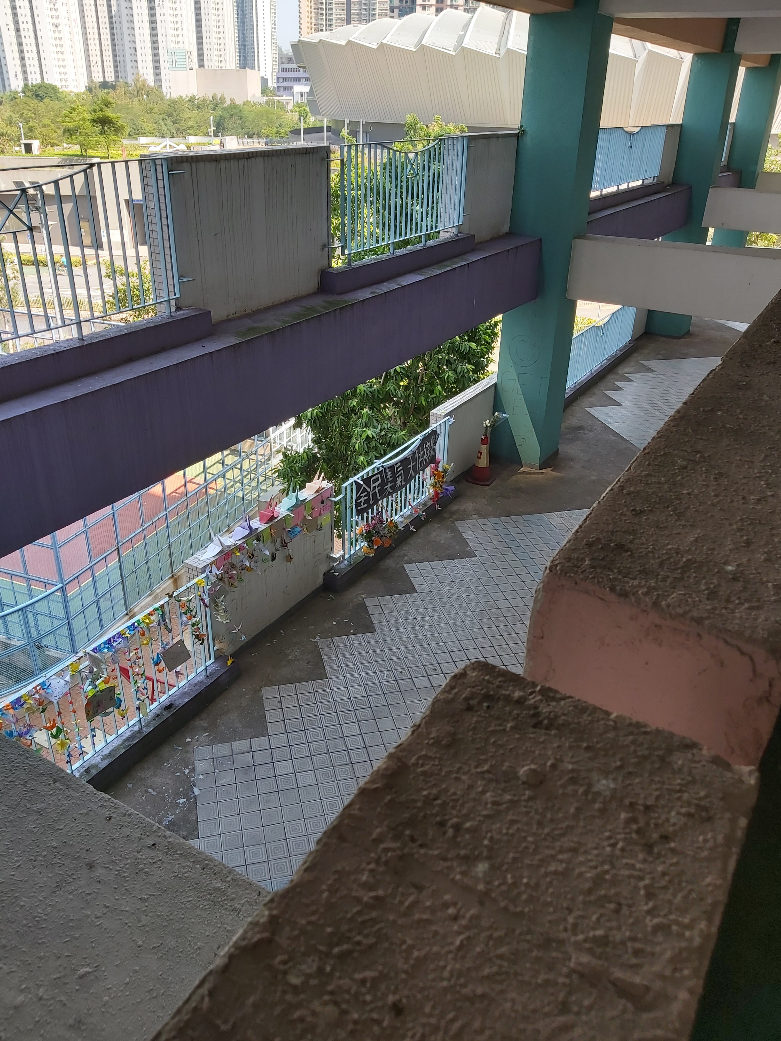 Photos uploaded on 15 October, 2019